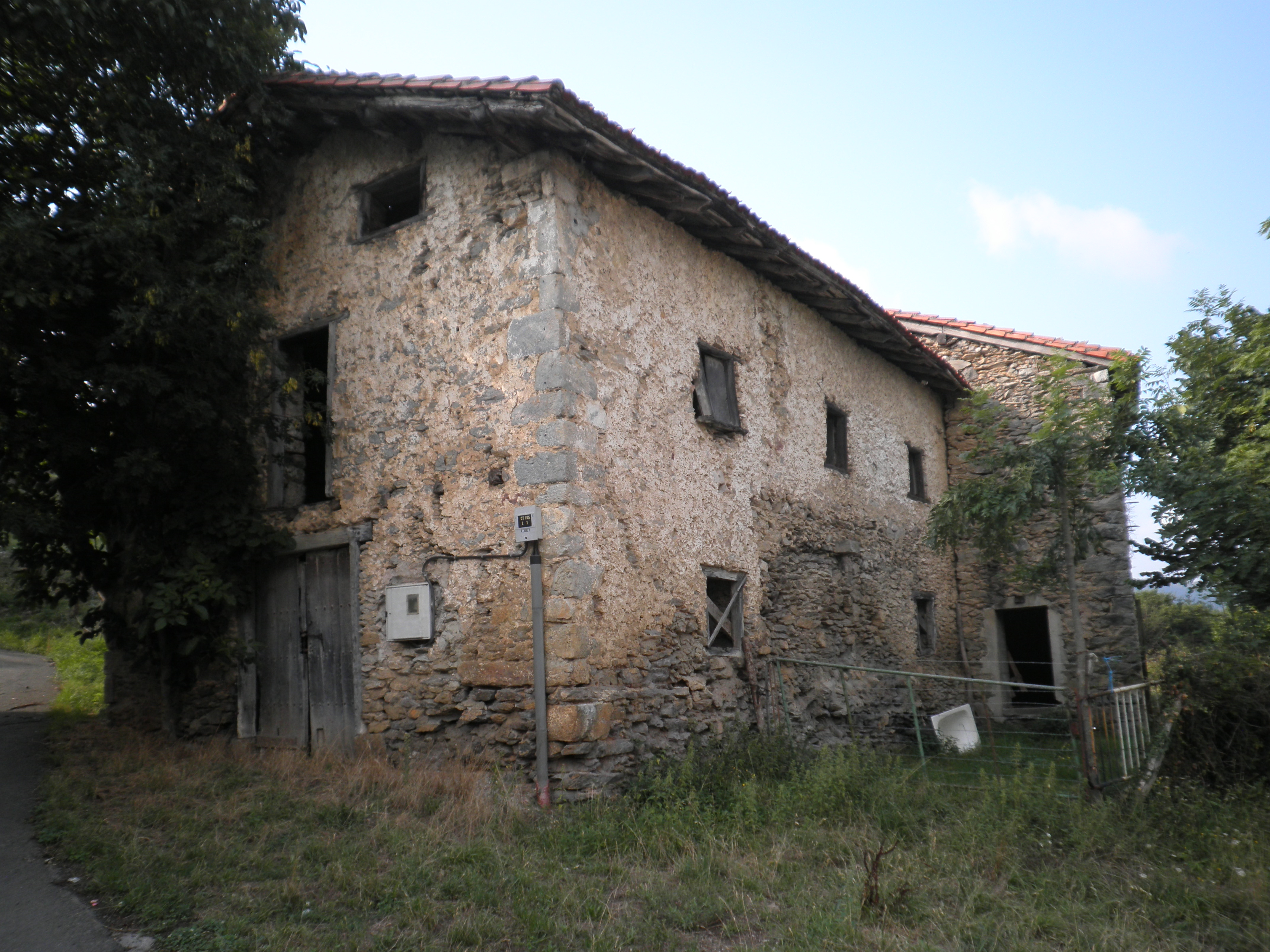 Basque farmhouse in Larraul.